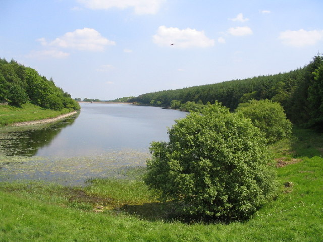 Beaver Dyke Reservoir. Lower Beaver Dyke reservoir Haverah Park taken from the embankment between the reservoirs.